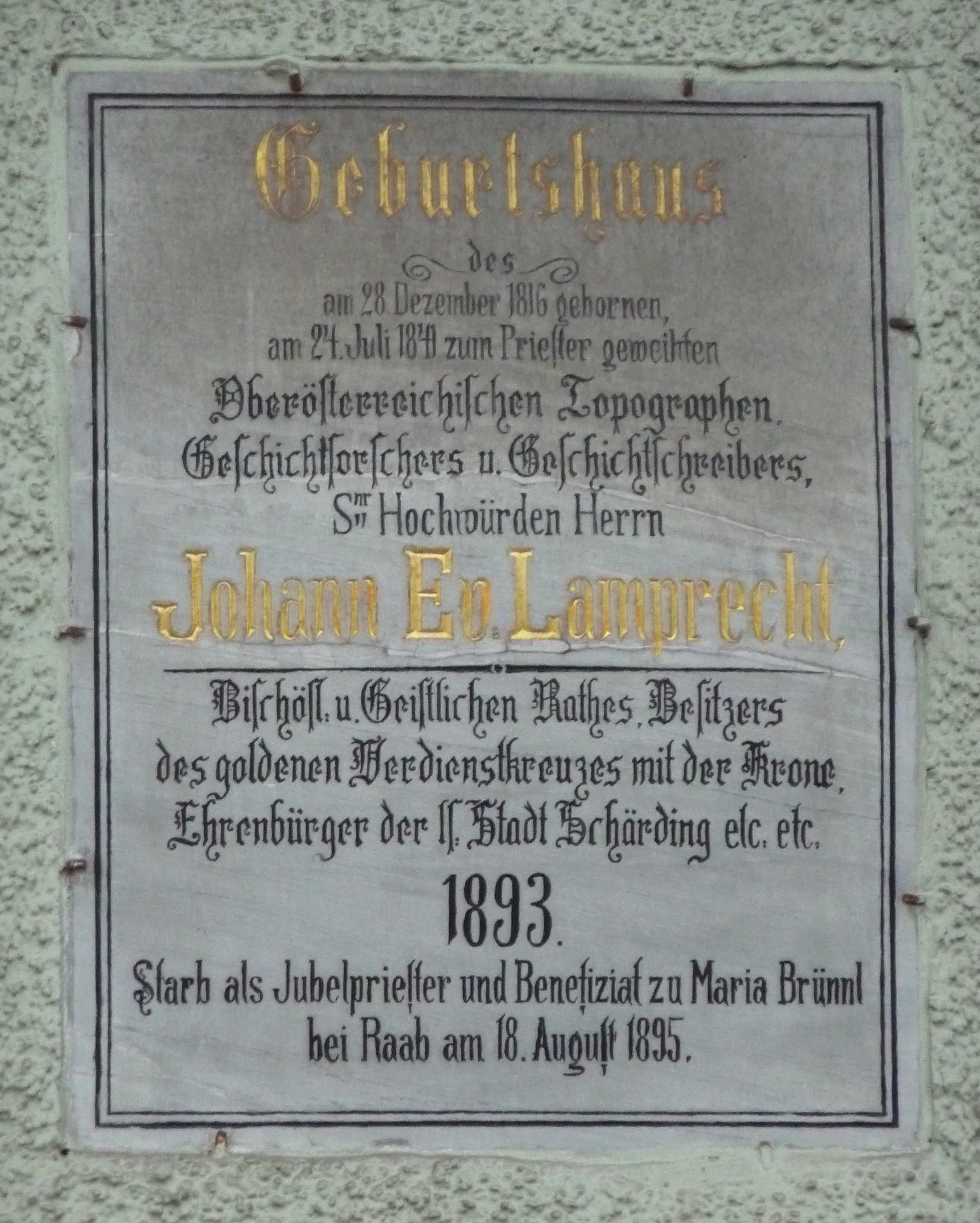 Birthplace of Johannes Ev.Lamprecht in Schärding.